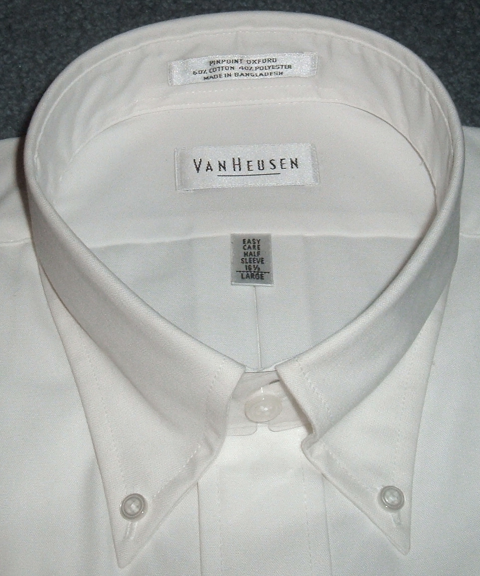 Shirt collar. Van Heusen brand. One of a series of common objects I photographed in the summer of 2005 to illustrate Basic English picture wordlist. --agr 21:08, 3 August 2005 (UTC)